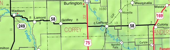 This map of Kansas Highway K-58 is copied at a resolution of ? pixels/inch from the original PDF file.Kansas 2005–2006 Official Transportation Map [1] (map legend)